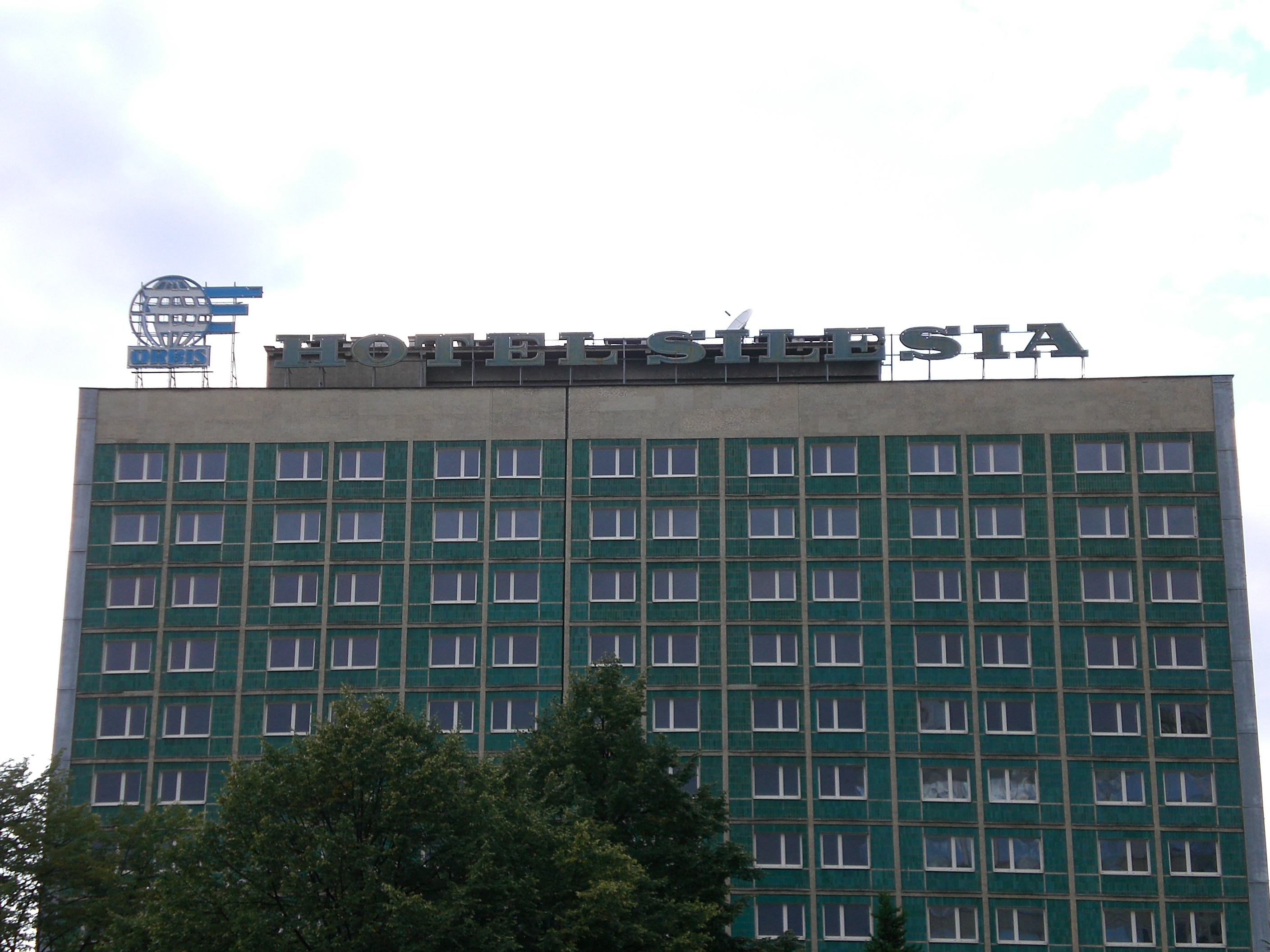 Former Hotel Silesia in Katowice with ORBIS Logo